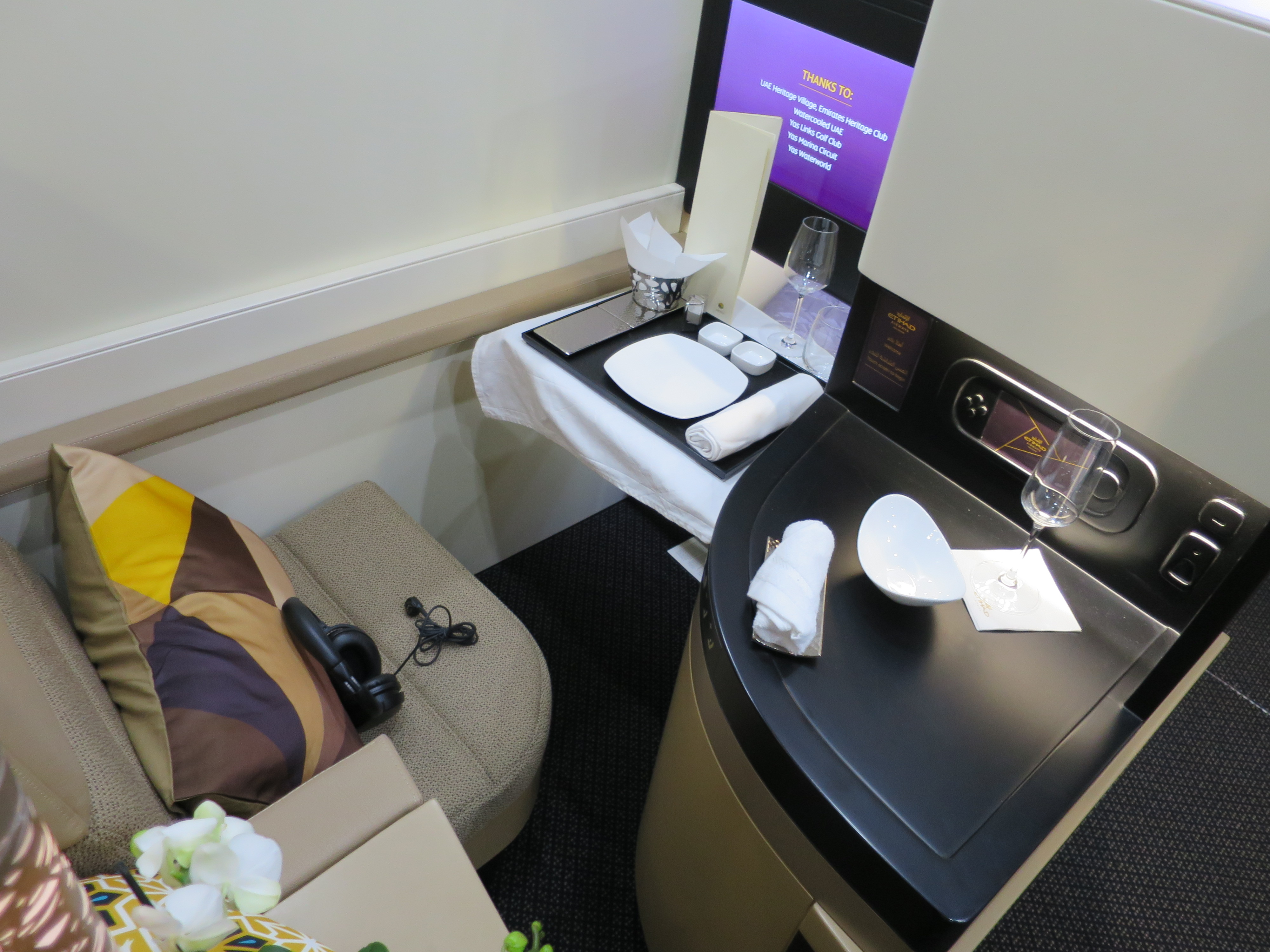 Etihad Airways aircraft interiors demo ITB 2017.